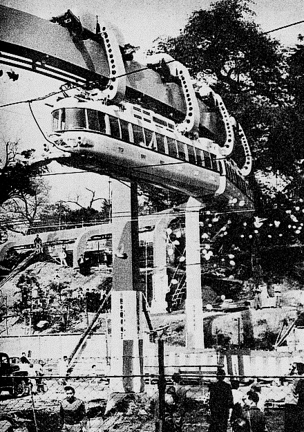 Ueno Zoo Monorail under trial operation